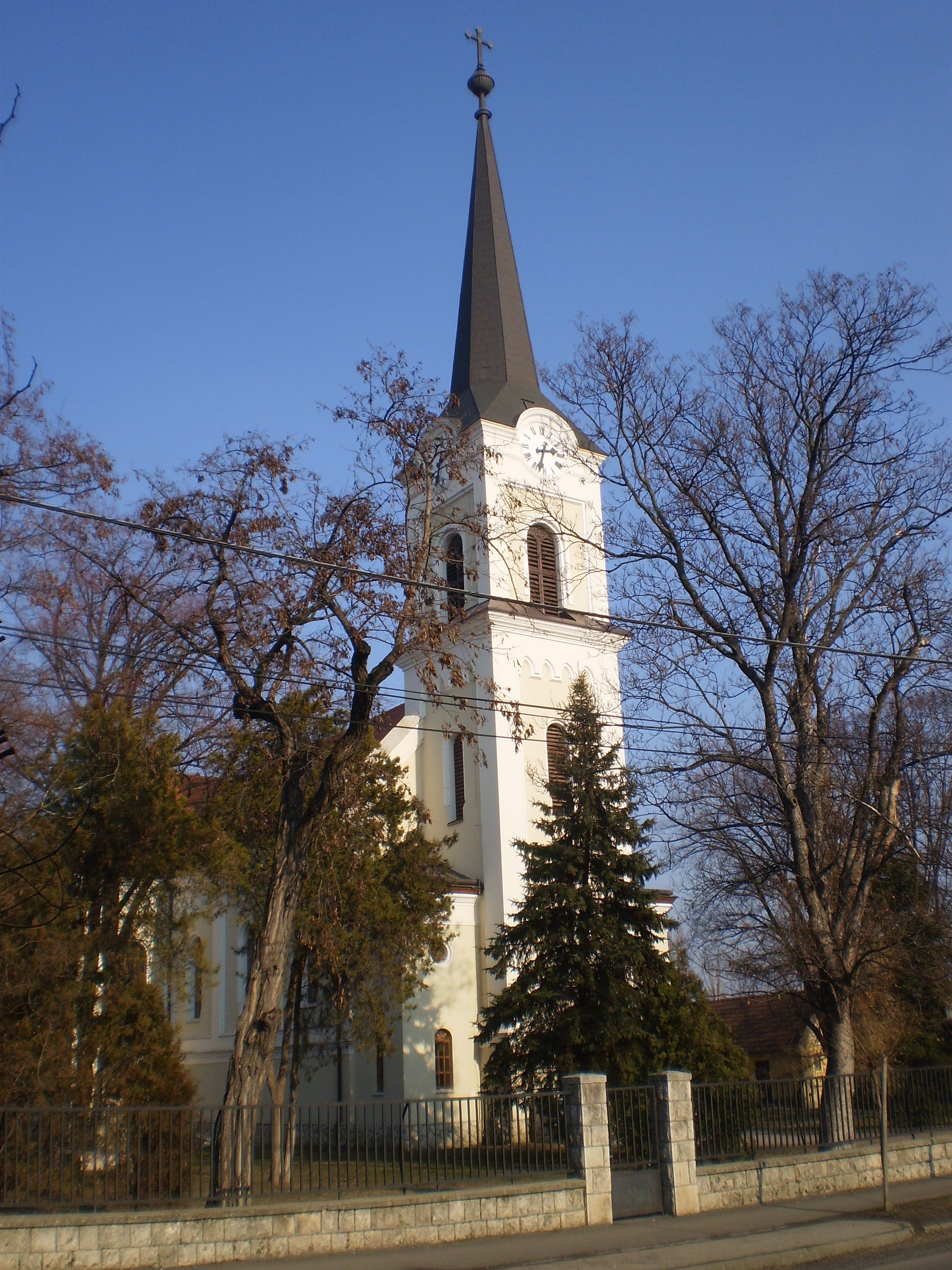 Katholic church, Budakalász, Hungary